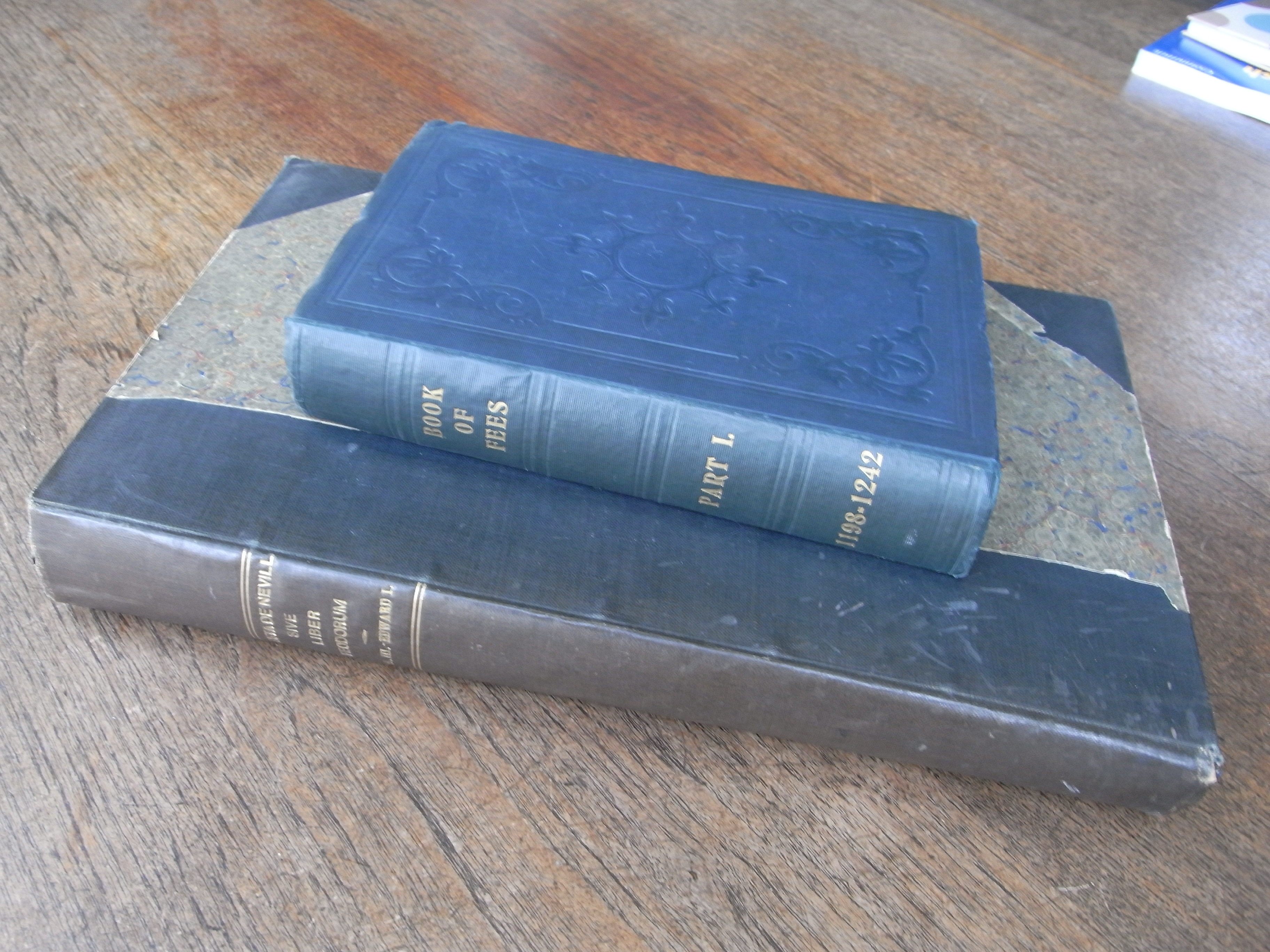 Liber Feodorum/Testa de Nevill/Book of Fees: 1920 edition, vol 1 of 3, atop the 1807 folio size edition.